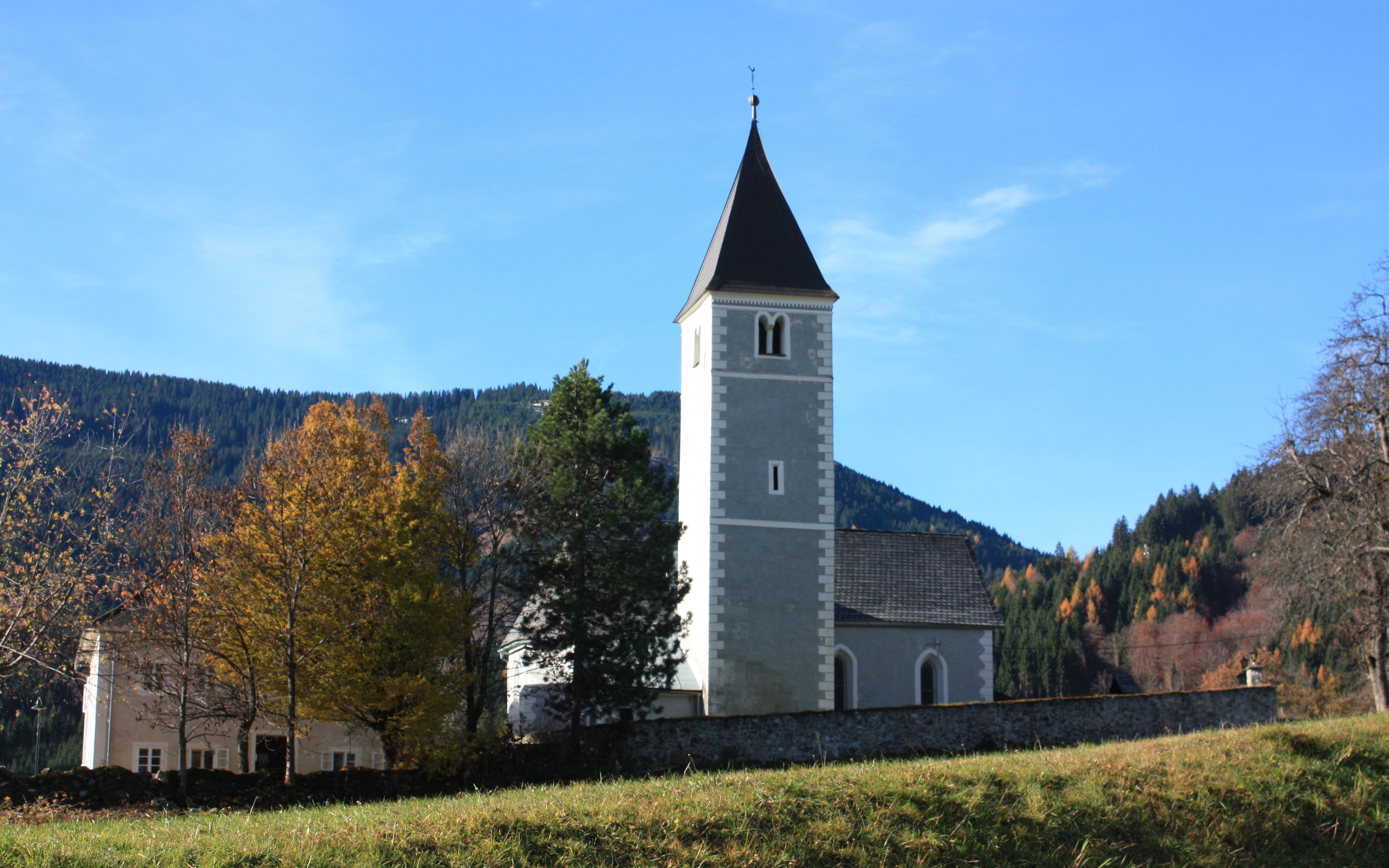 Catholic church in the village Weißbriach in the community Gitschtal